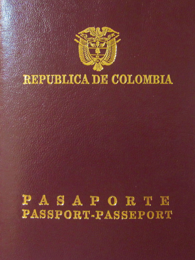 Colombian Passport